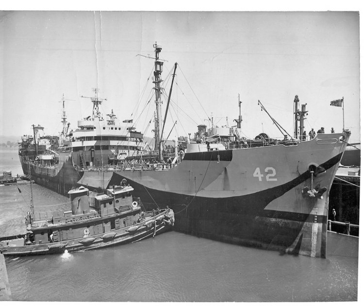 The U.S. Navy fleet oiler USS Monongahela (AO-42). The navy harbor tug YTM-721 along with several smaller tugs are assisting Monongahela into or out of her berth, date and location unknown. Monongahela is painted camouflage scheme 32/6AO.